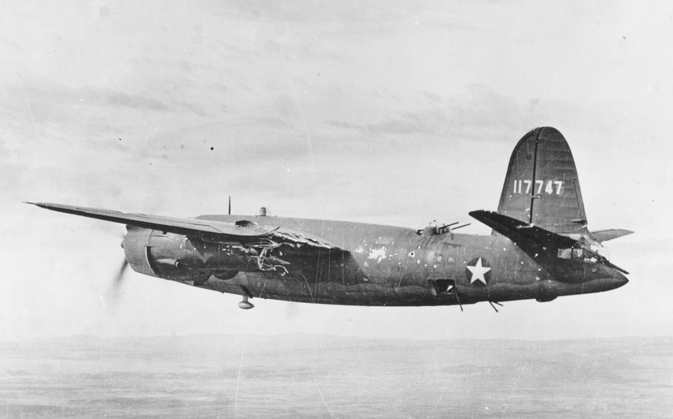 Martin B-26B-1-MA (S/N 41-17747) nicknamed "Earthquake McGoon" of the 37th Bombardment Squadron, 17th Bombardment Group with flak damage to the No. 1 engine nacelle, left wing and wheel well, in September 1943. Note the missing landing gear doors.